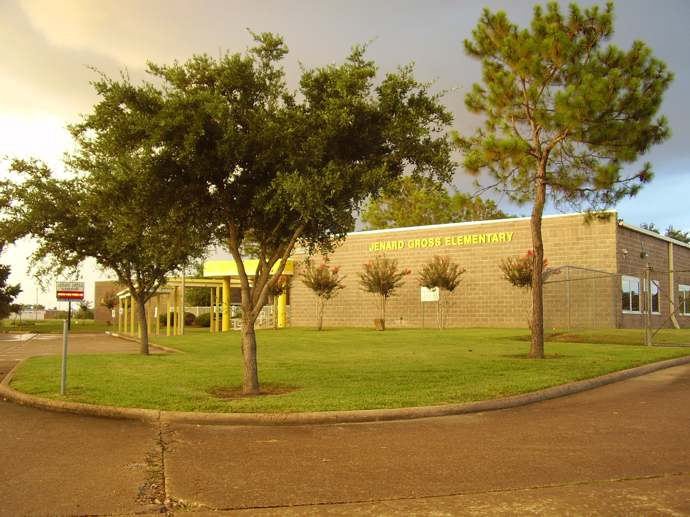 Jenard M. Gross Elementary School (formerly the I. Weiner Jewish Secondary School)